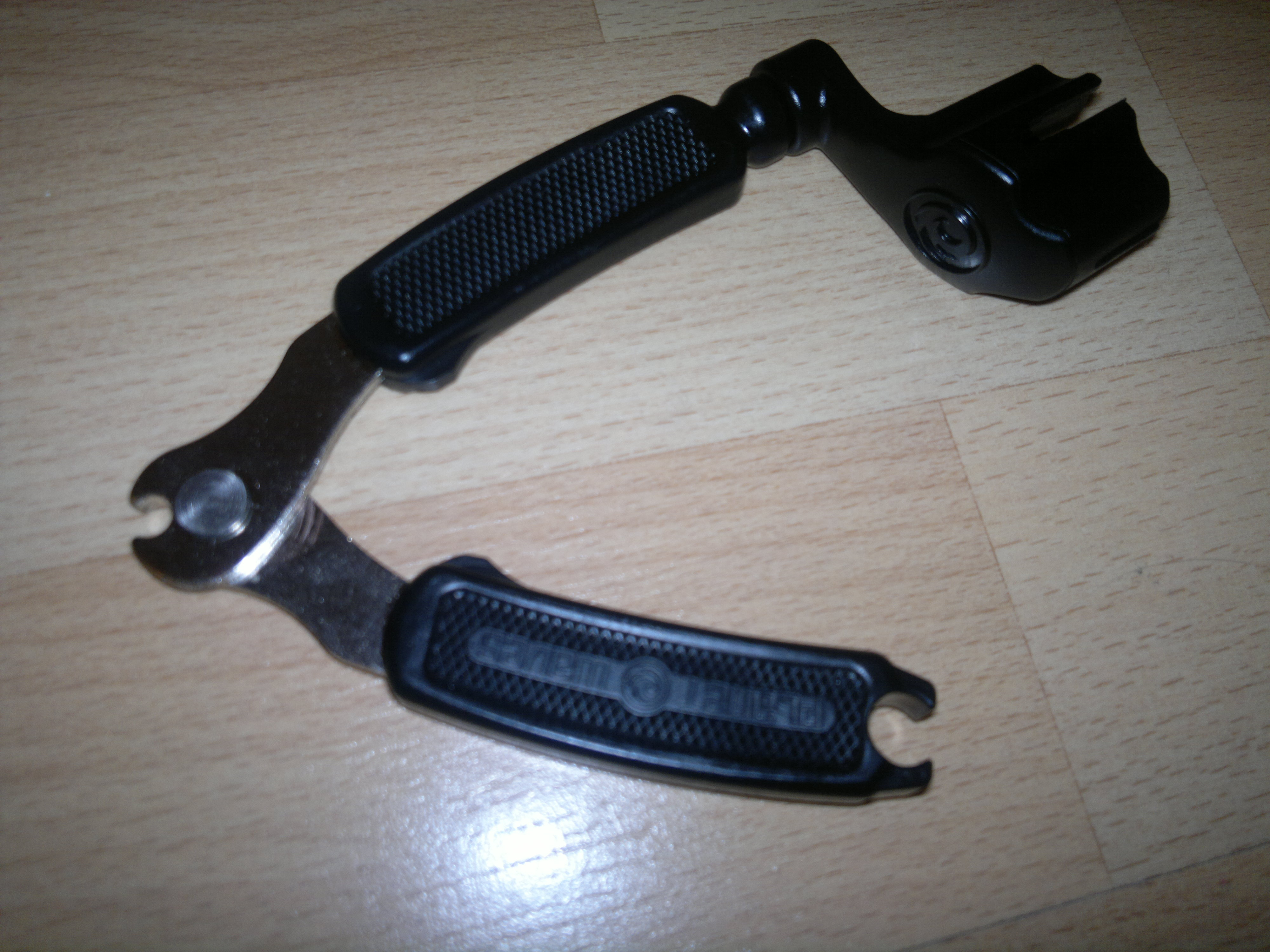 This string-winder comes with built-in string-trimmer and acoustic guitar bridge-pin puller. How have I guitared for 27 years without one?